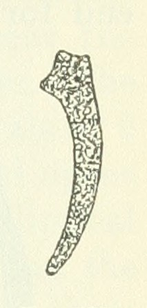 Dermatoxys veligera, spiculum, 85 micrometer